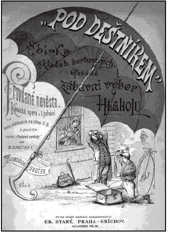 cz:Jindřich Souček: „Provdaná nevěsta“ (1891)